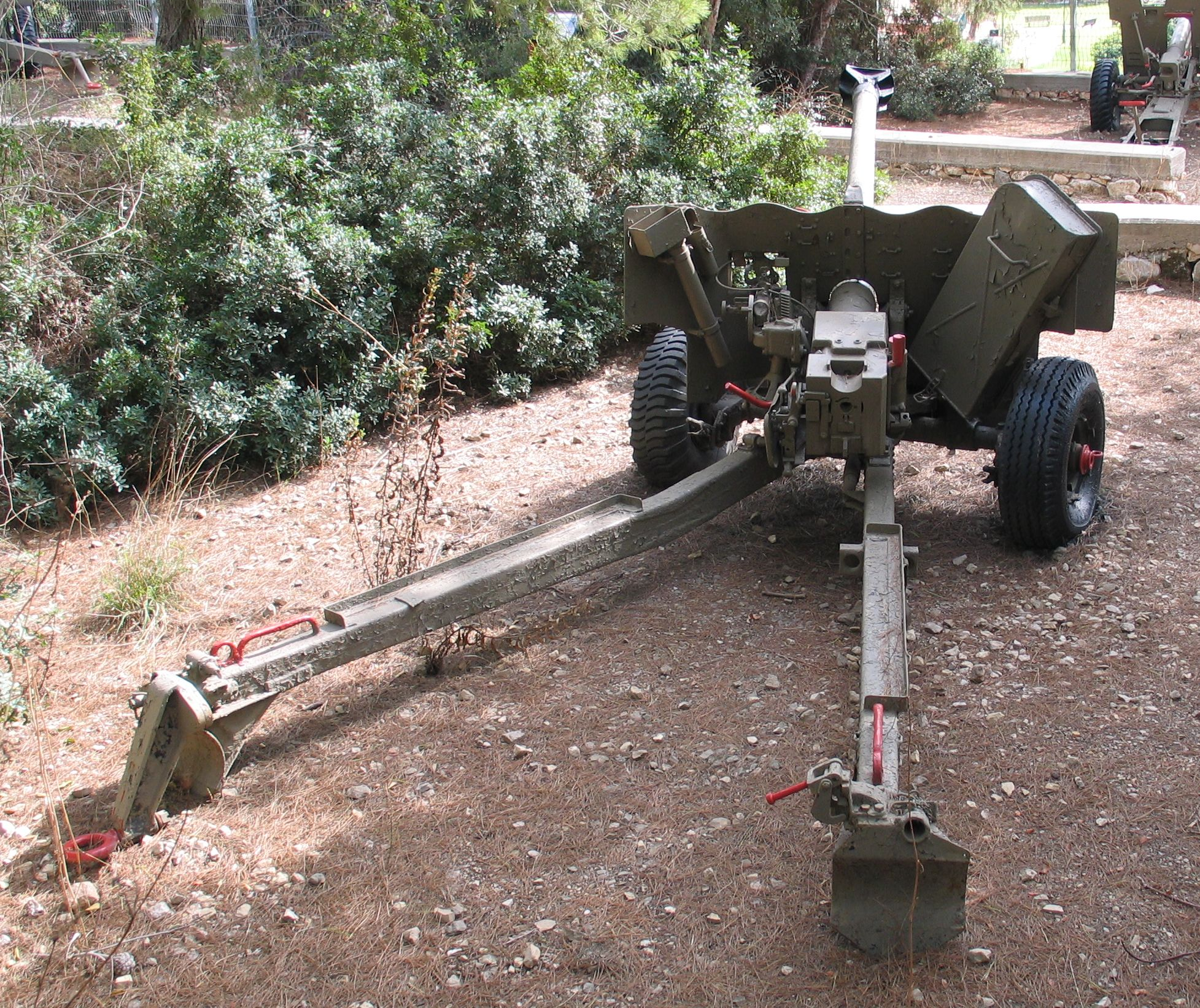 DEFA 90 mm gun on QF 6 pounder carriage, in Beyt ha-Totchan, Zichron Yaakov, Israel.